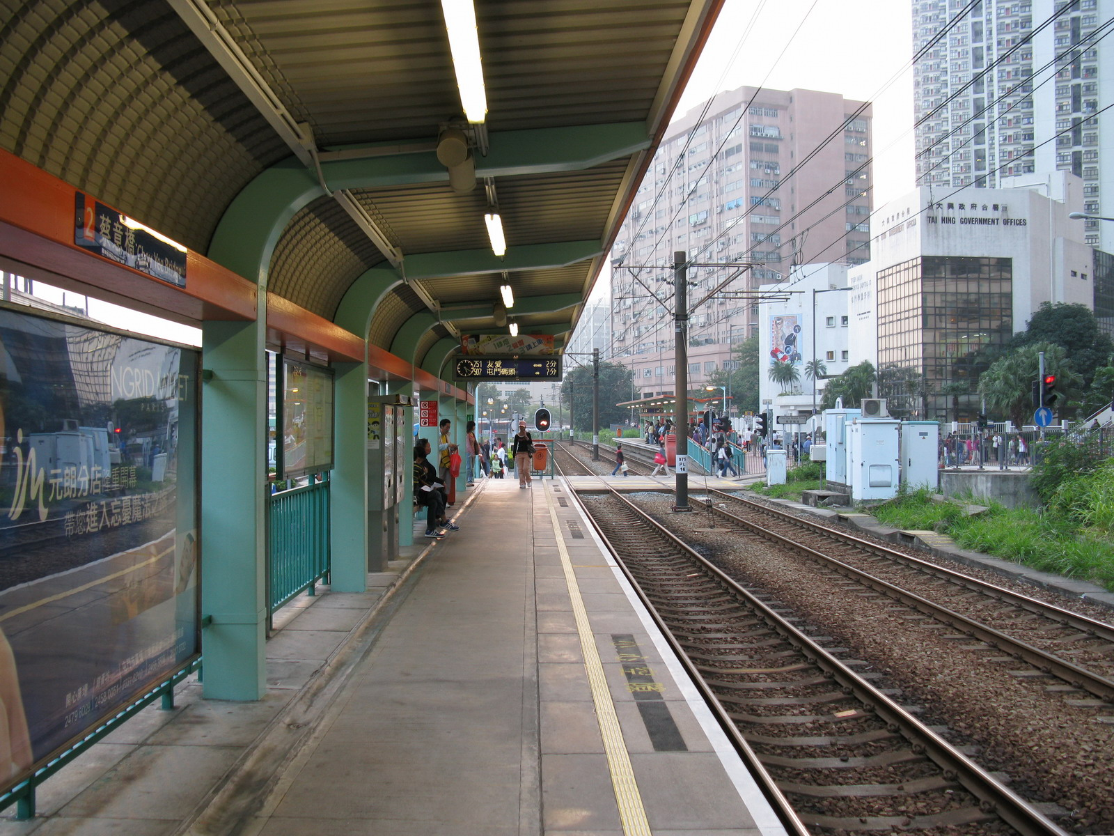 輕鐵 蔡意橋站 Choy Yee Bridge Stop, Light Rail